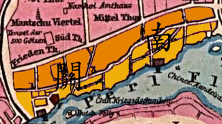 Map of Southern Gate (南關) of Canton City, Kwangtung Province in 1878